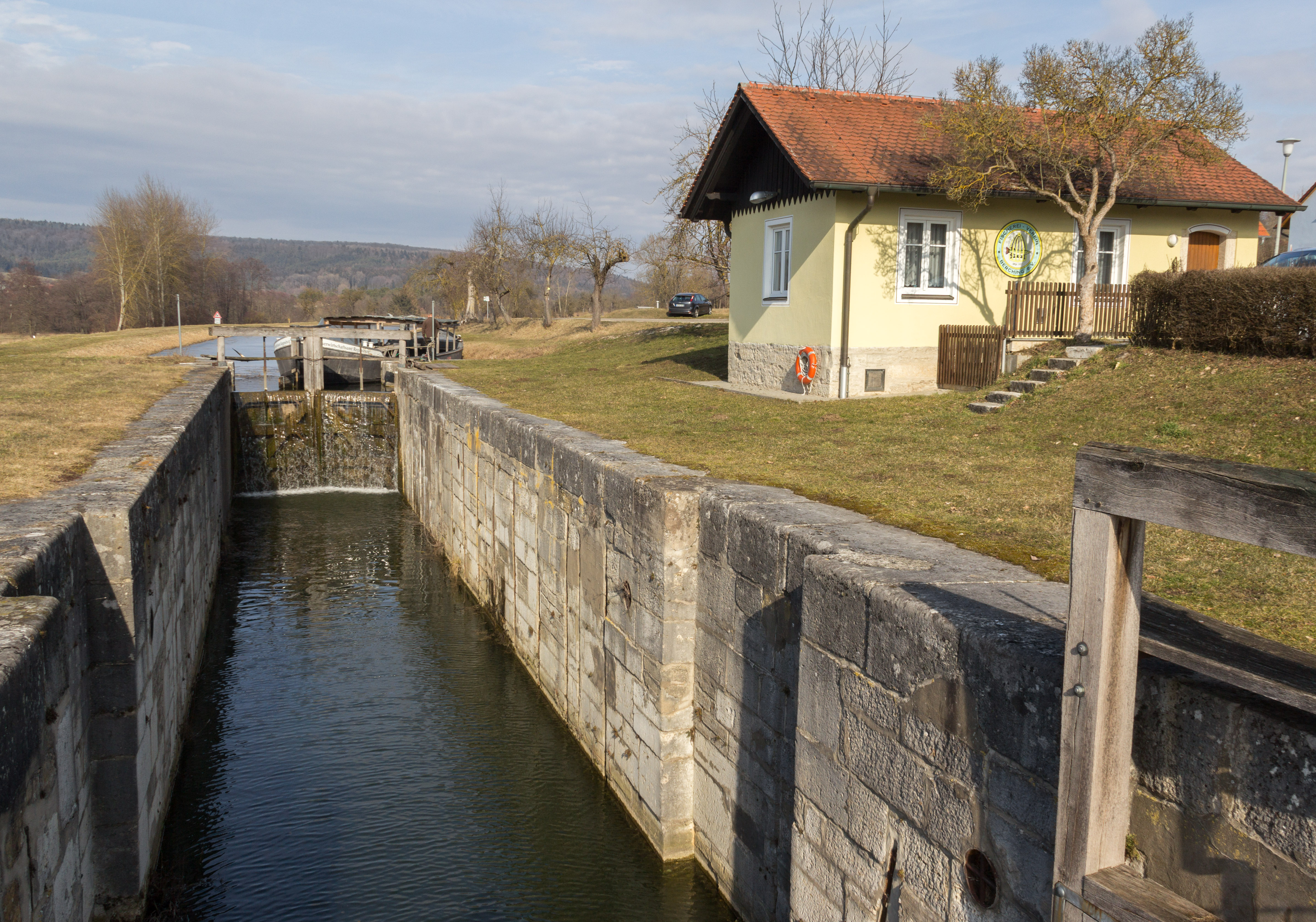 LDMK, Schleuse 24, Berching